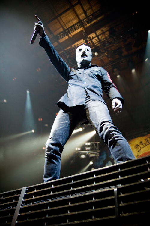 Vocalist Corey Taylor of Slipknot performing at the Allstate Arena in 2009.